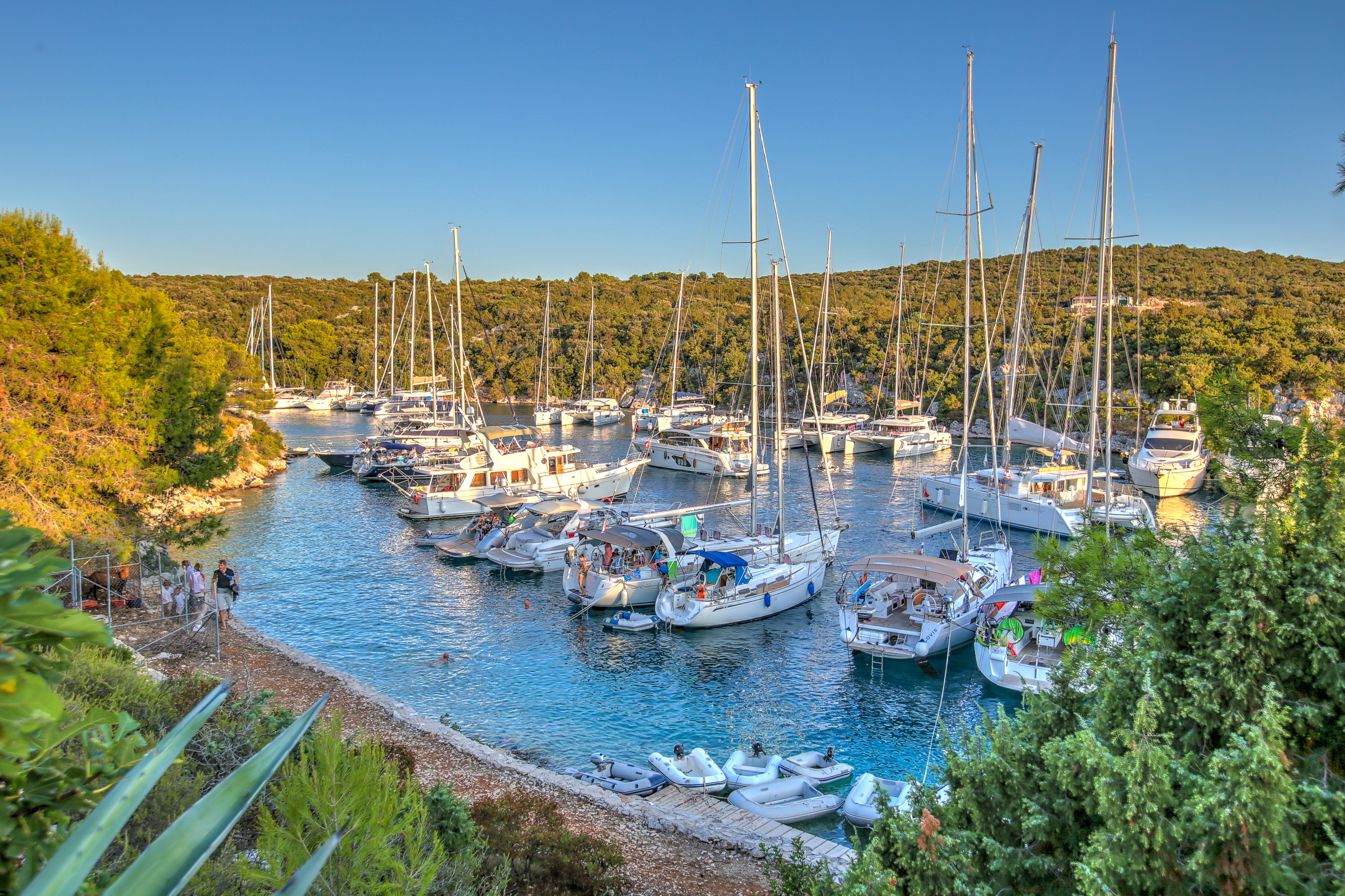 The bay Uvala Šešula near Maslinica Maslinica on the island Šolta / Croatia / Adriatic Sea / EU. Rear part of the anchor bay. On summer weekends the popular bay is full of yachts.